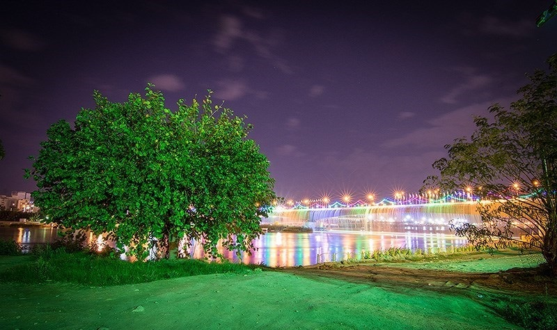 City of Ahvaz in night